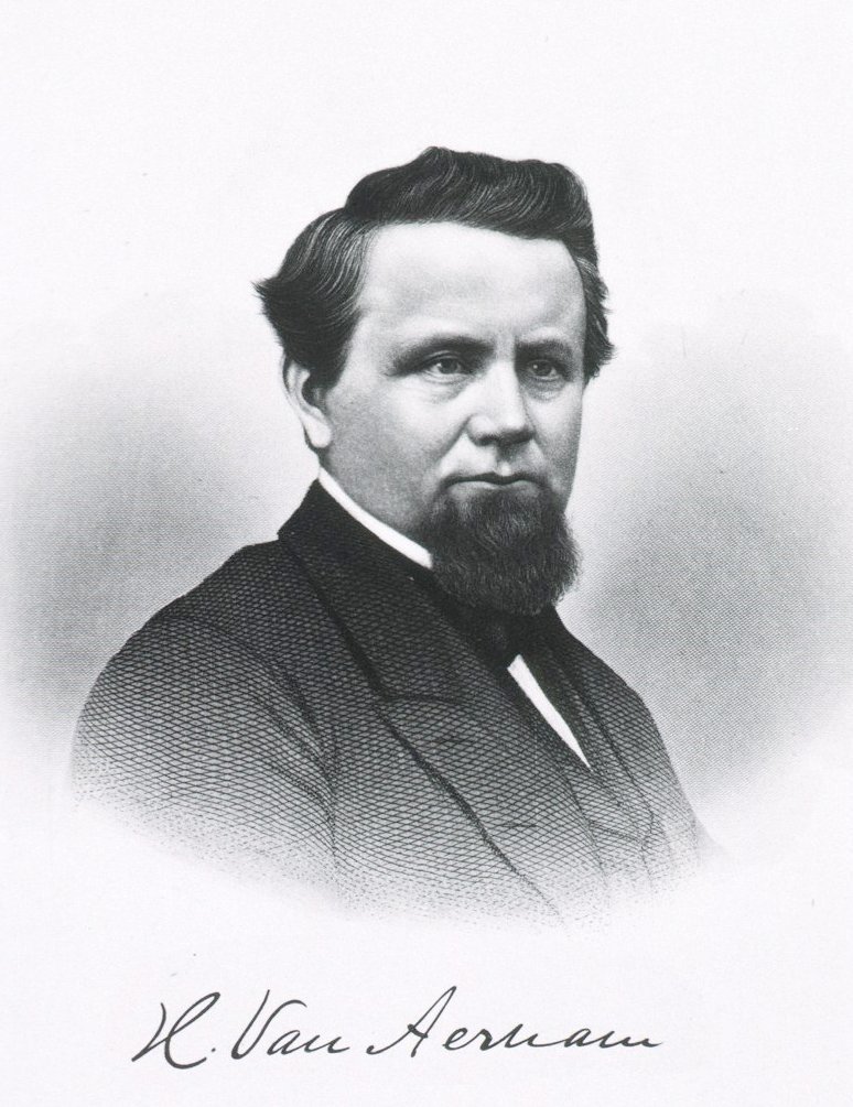 Henry Van Aernam (March 11, 1819 – June 1, 1894)